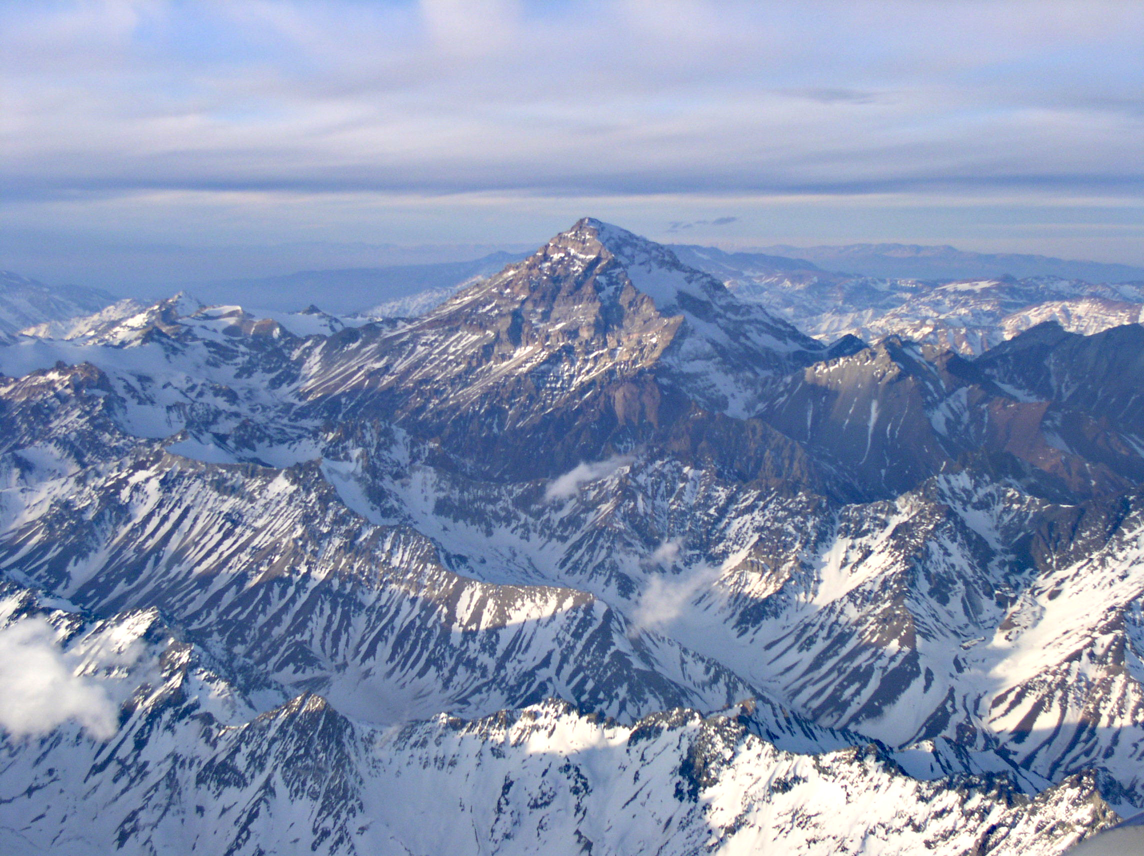 Aerial view of Aconcagua